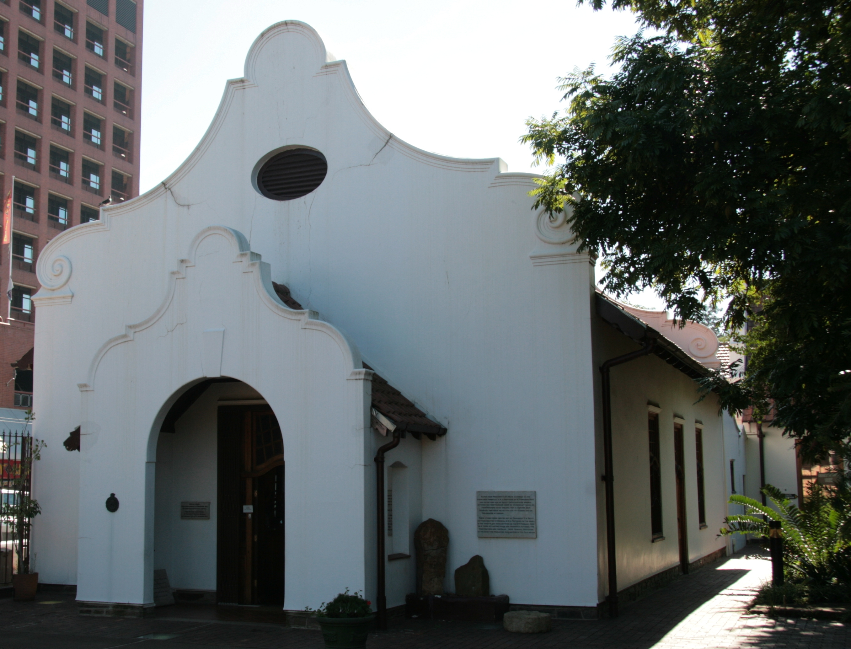 Church of the Vow in the Voortrekker complex, Pietermaritzburg, South Africa